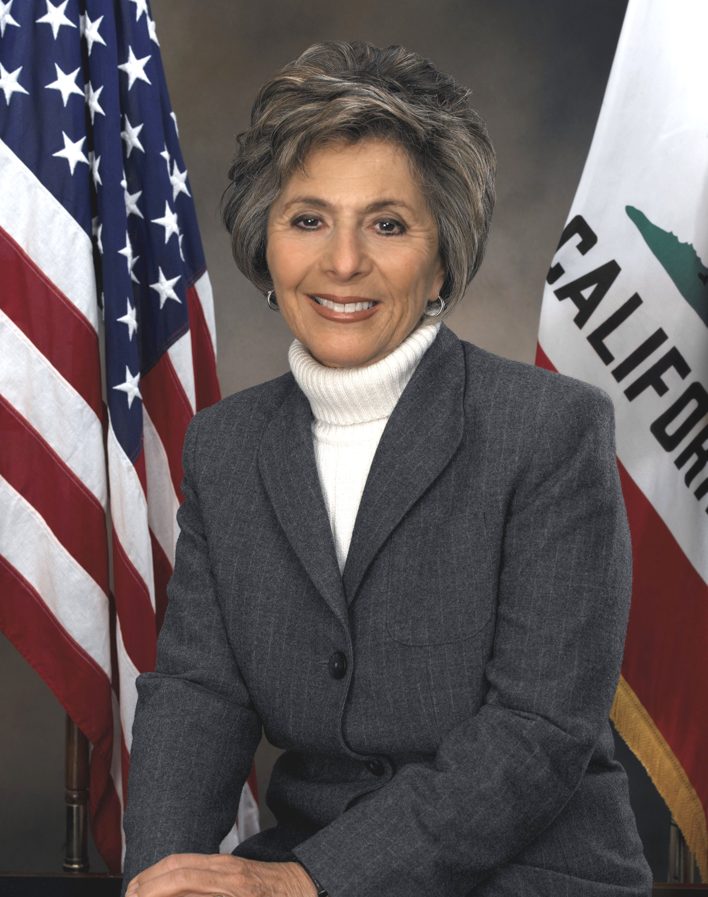 Barbara Boxer, United States Senator from California